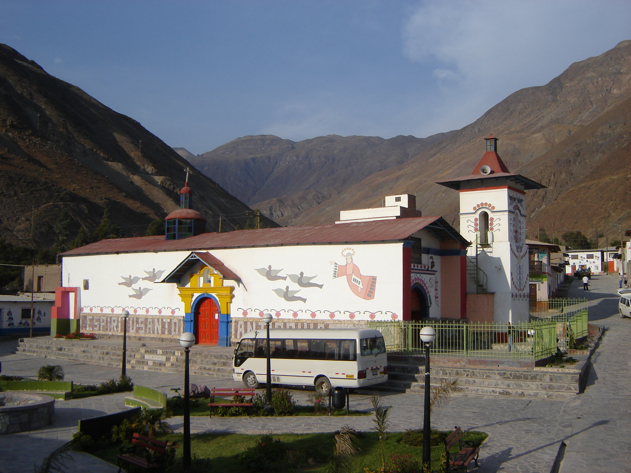 Main square and church of Antioquía, a town in Huarochirí Province, Lima Region, Peru.